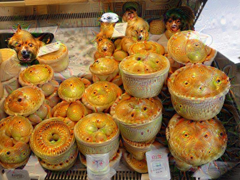 Version of Southwark market pies, after going through the trippy filter for Deep Dream.